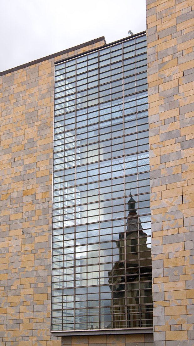 Archivo de Navarra (Palacio de los Reyes de Navarra)